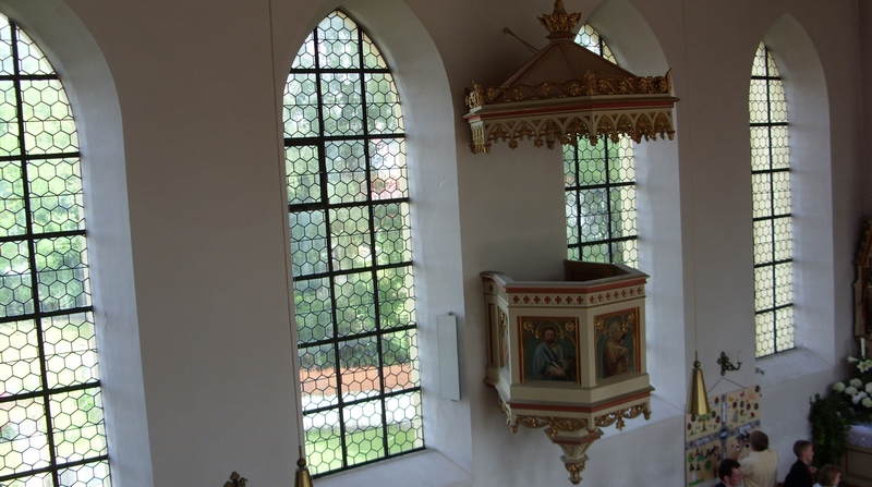 Church of Neufarn, Bavaria: Pulpit